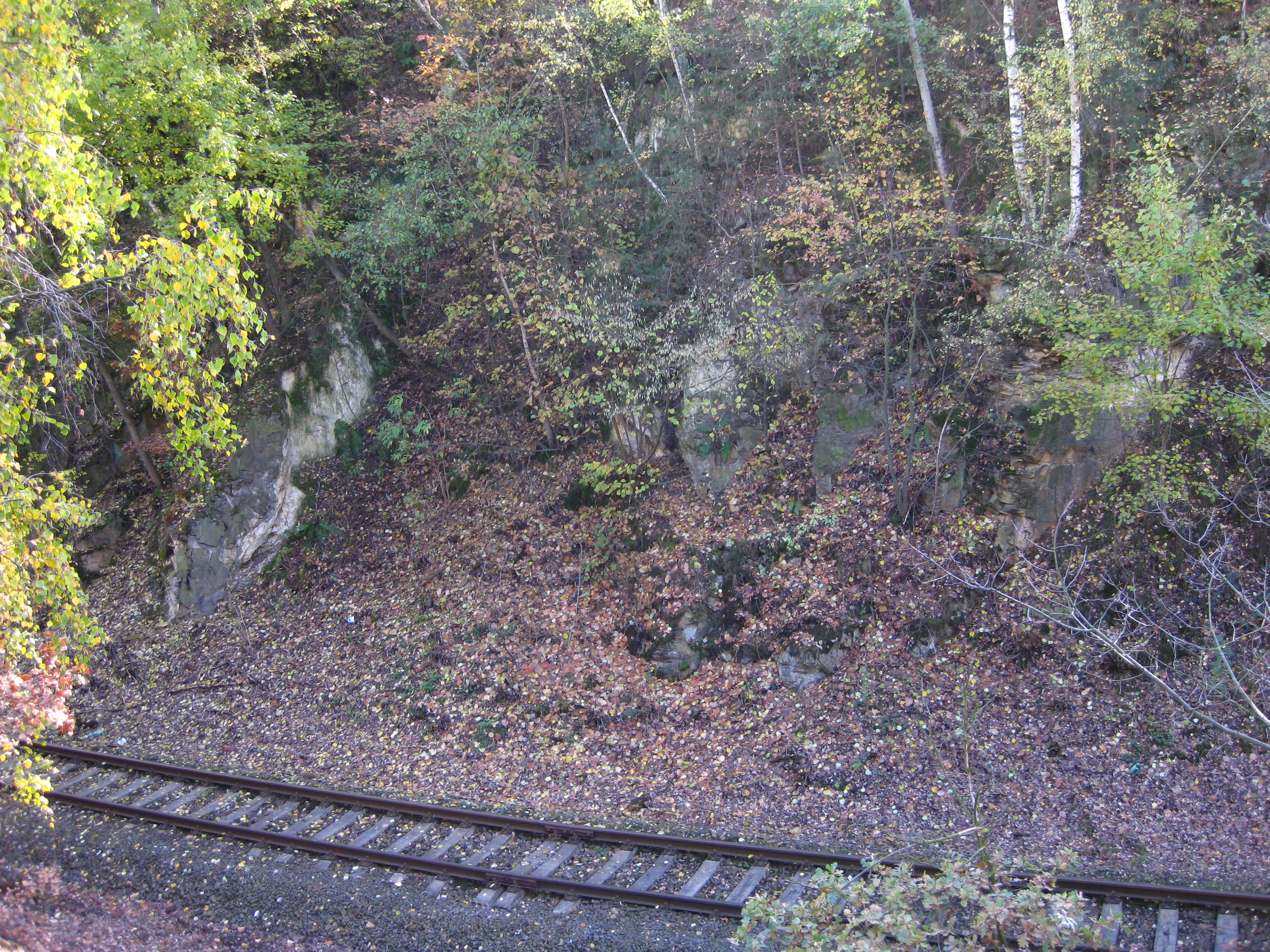 National monument Motolský ordovik in Prague, Czech Republic